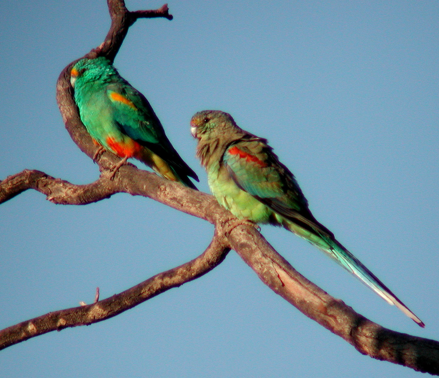 Mulga Parrot (Psephotus varius) Currawinya NP, SW Queensland, Australia